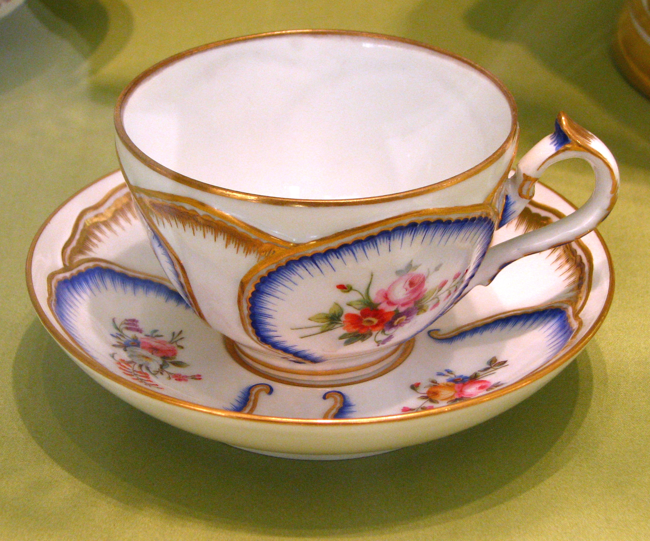 The Museum of the Imperial Porcelain Factory. Items from the banquet service from Peterhof Palace. Imperial Porcelain Factory, Russia, 1848 - 1881. By the model of the French service "Feuilles de choux" (Sevres, 1770 - 1780). Teacup.